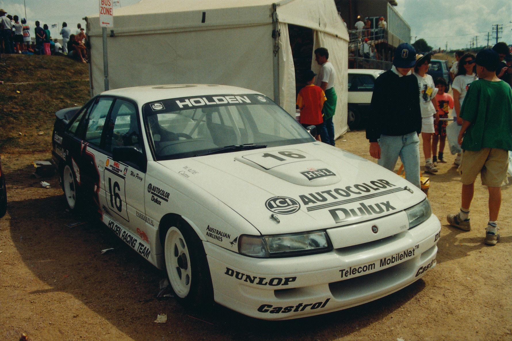 This image is a scan of a 35 mm print taken at Bathurst 1991